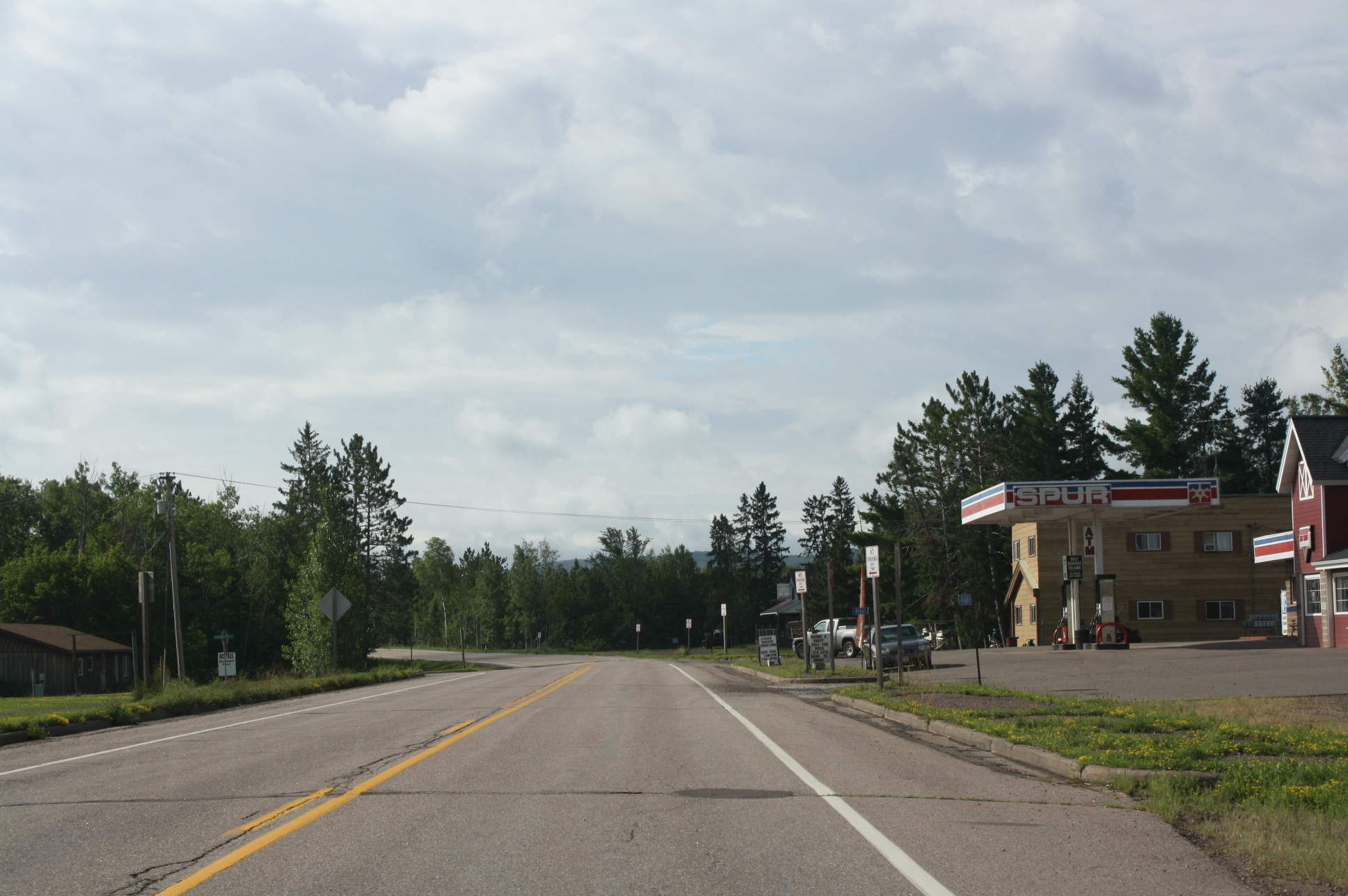 Looking south at Marengo (CDP), Wisconsin on Wisconsin Highway 13.